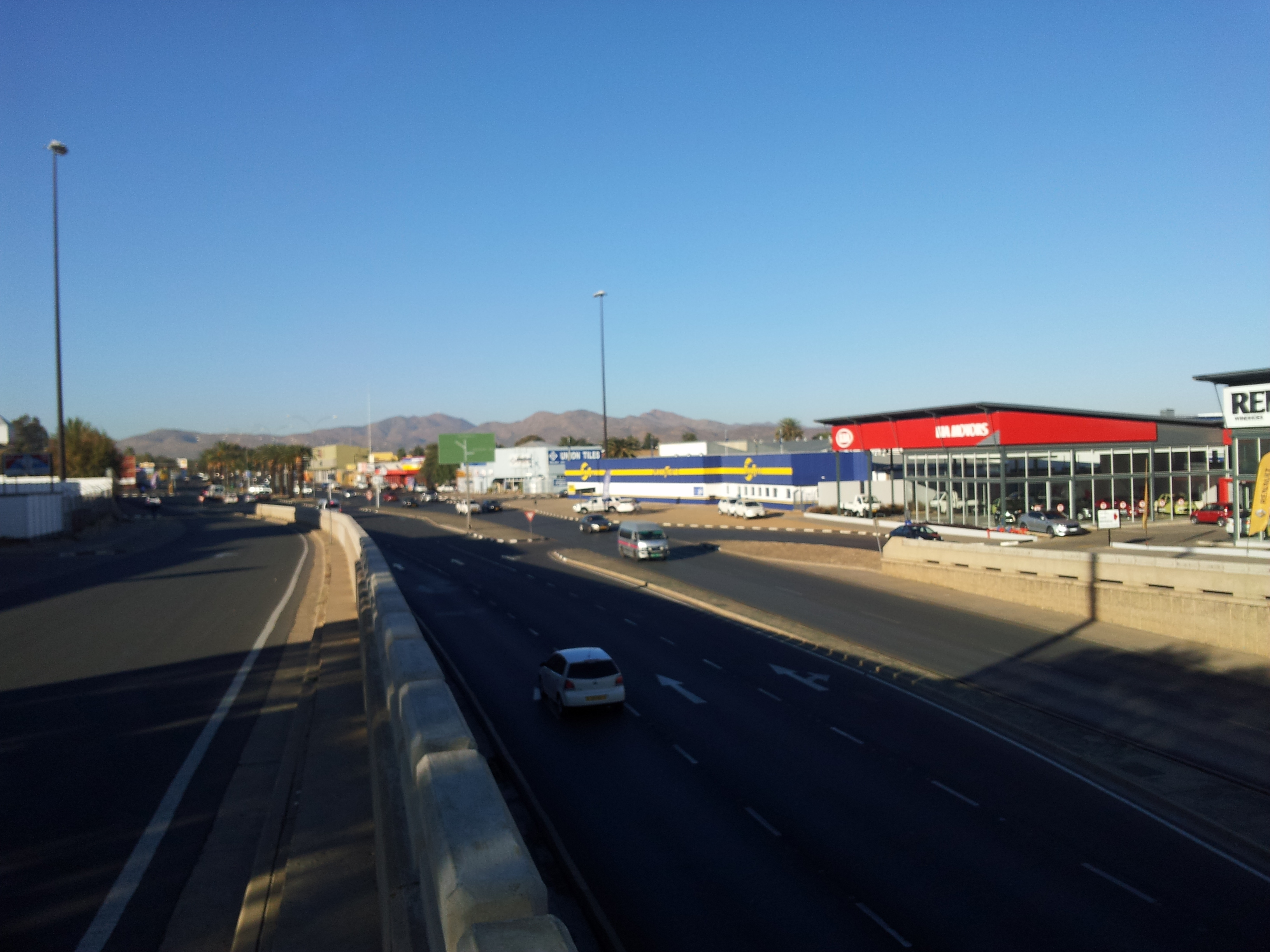 View in Southern direction onto Mandume Ndemufayo Avenue